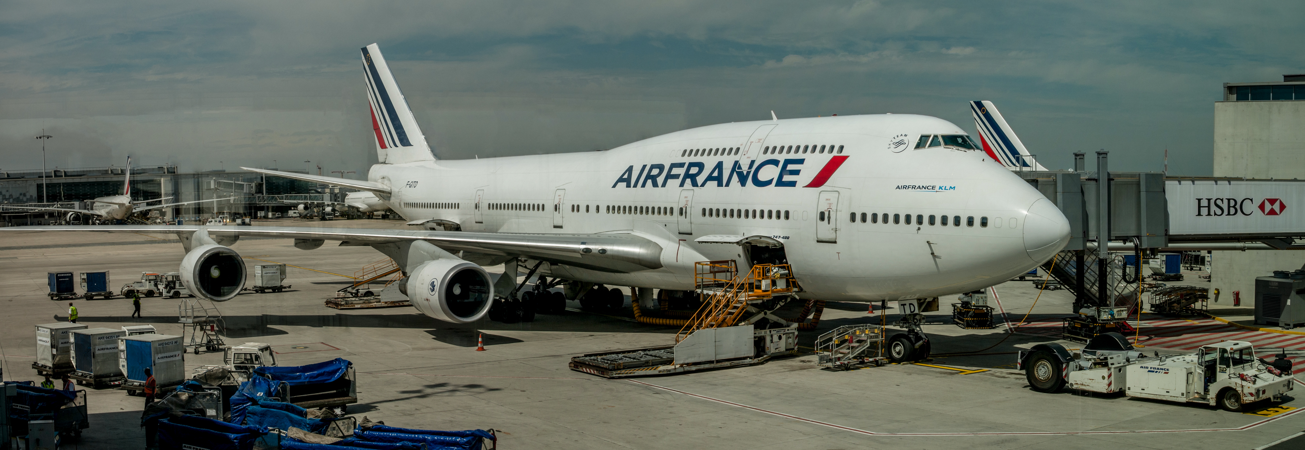 Airfrance Airplane